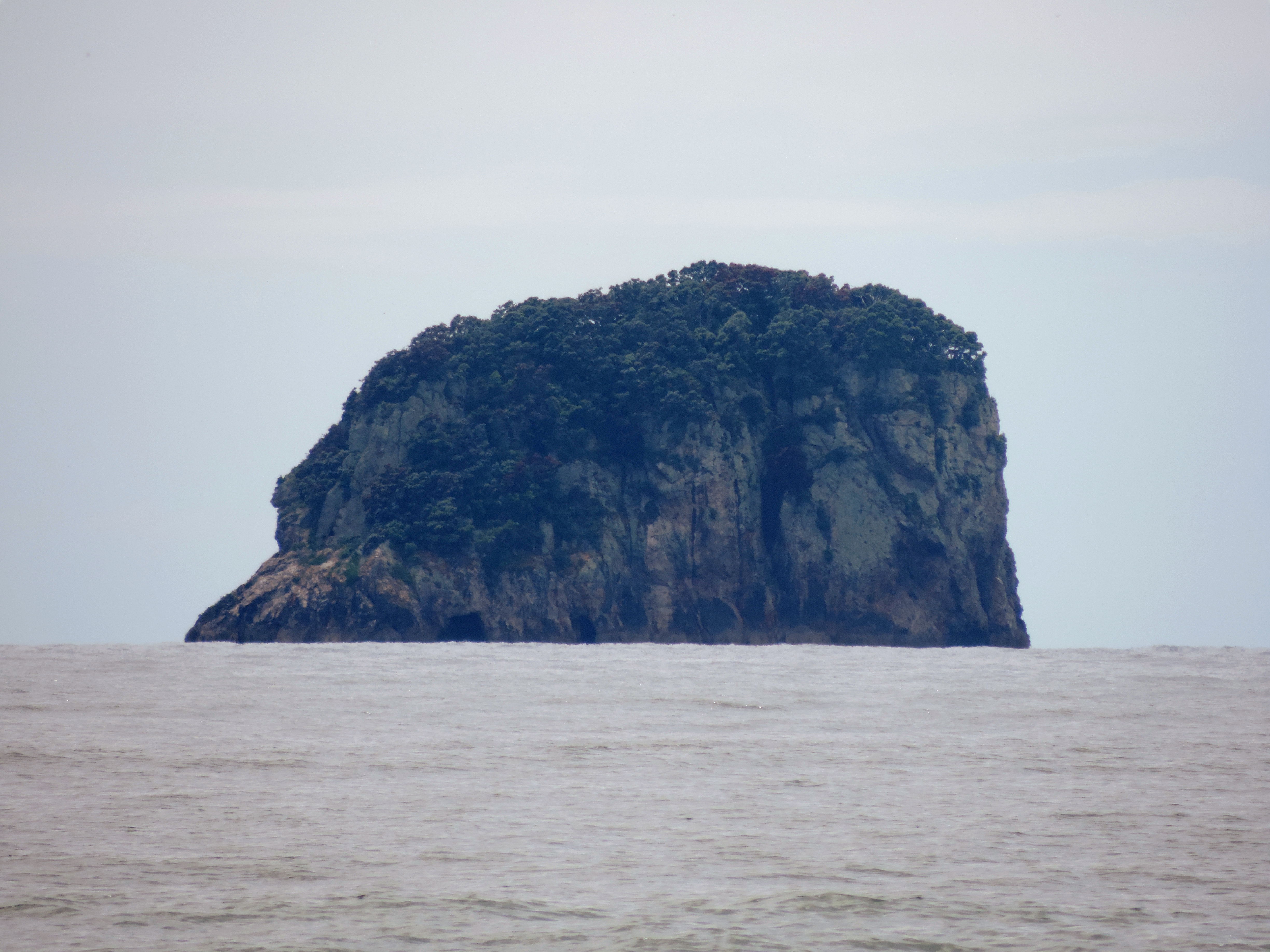 Castle Island seen from Hot Water Beach, Coromandel Peninsula, North Island, New Zealand